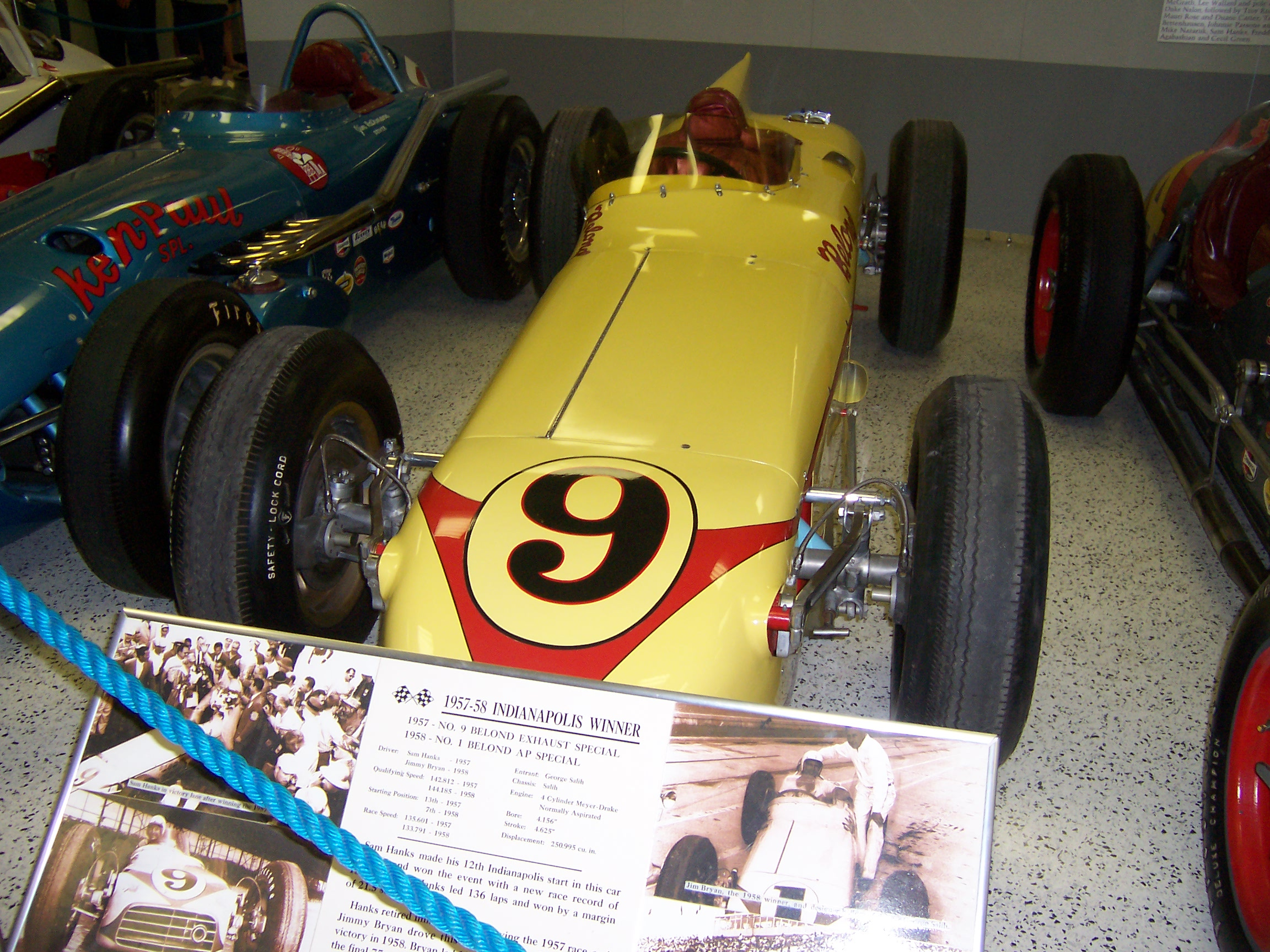 Image of the winning car of the 1957 and 1958 Indianapolis 500 (Sam Hanks/Jimmy Bryan). Photo was taken at the Indianapolis Motor Speedway Hall of Fame Museum, during the month of May 2011, at the 100th Anniversary "Ultimate Indianapolis 500 Winning Car Collection."